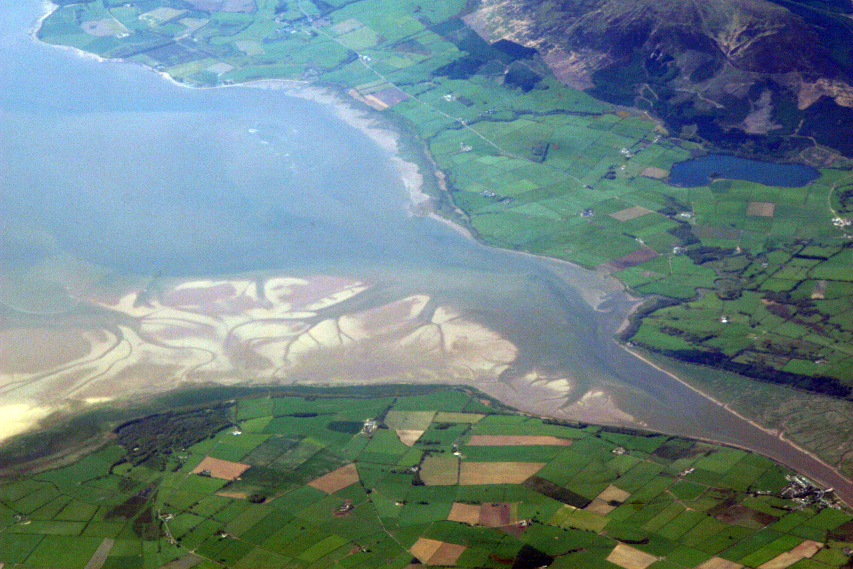 The estuary of the River Nith, Scotland, at low tide; opening into Solway Firth. This is a view of the Nith estuary from the north-east. The group of buildings at bottom right is the village of Glencaple. At bottom left near the wooded area is Caerlaverock Castle. At top right is Loch Kindar and the hill above is called Criffel. Just beyond the top left of photo is the birthplace of John Paul Jones.